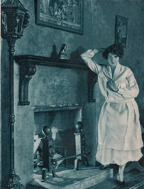 Barbara La Marr at her home in Hollywood Hills, California, dated April 1924